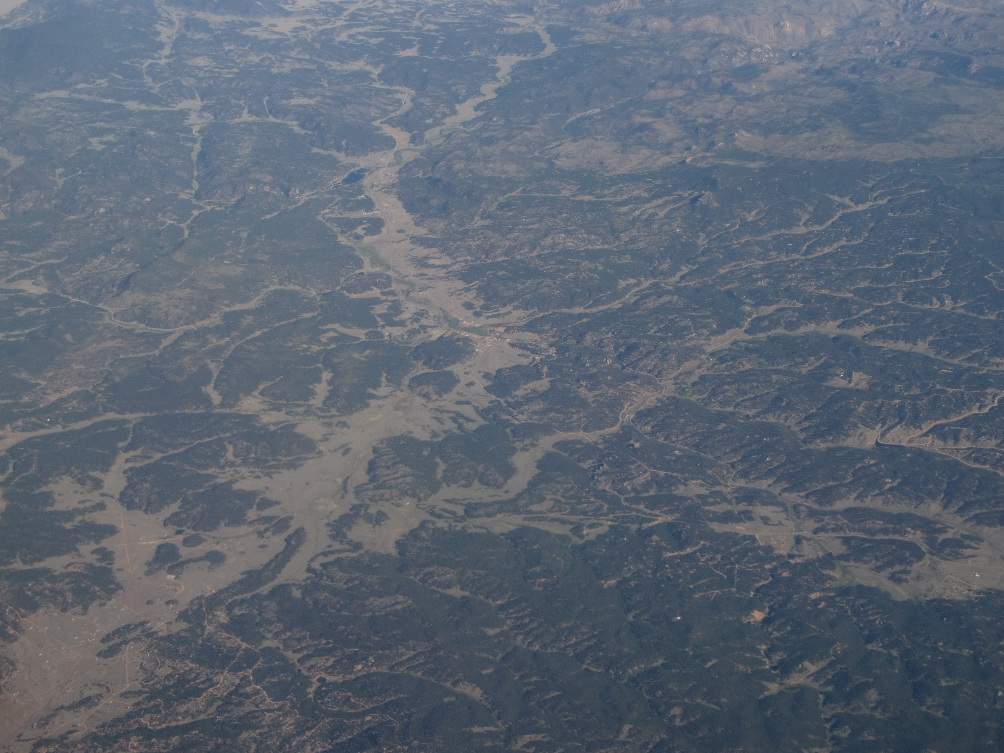 The Florissant Fossil Bed National Monument is a national monument located in Teller County, Colorado. The location is famous for the abundant and exceptionally preserved insect and plant fossils that are found in the mudstones and shales. Based on argon radiometric dating, the formation is Eocene (approximately 34 million years old [1]) in age and has been interpreted as a lake environment. The fossils have been preserved because of the interaction of the volcanic ash from the nearby Thirtynine Mile volcanic field with diatoms in the lake, causing an algal bloom. As the algae fell to the bottom of the lake, any plants or animals that had recently died were preserved by the algal mats.